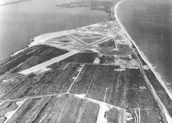 Joint Long Range Proving Ground AFB - 1950 (now Patrick AFB), FLorida